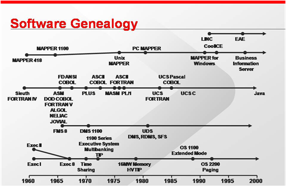 Unisys OS 2200 software genealogy for use in article